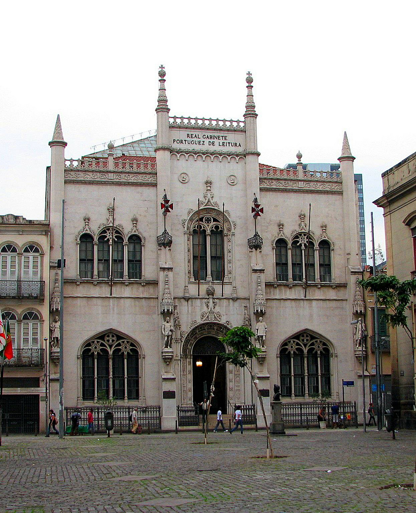 Royal Portuguese Reading Cabinet - Rio de Janeiro, Brazil